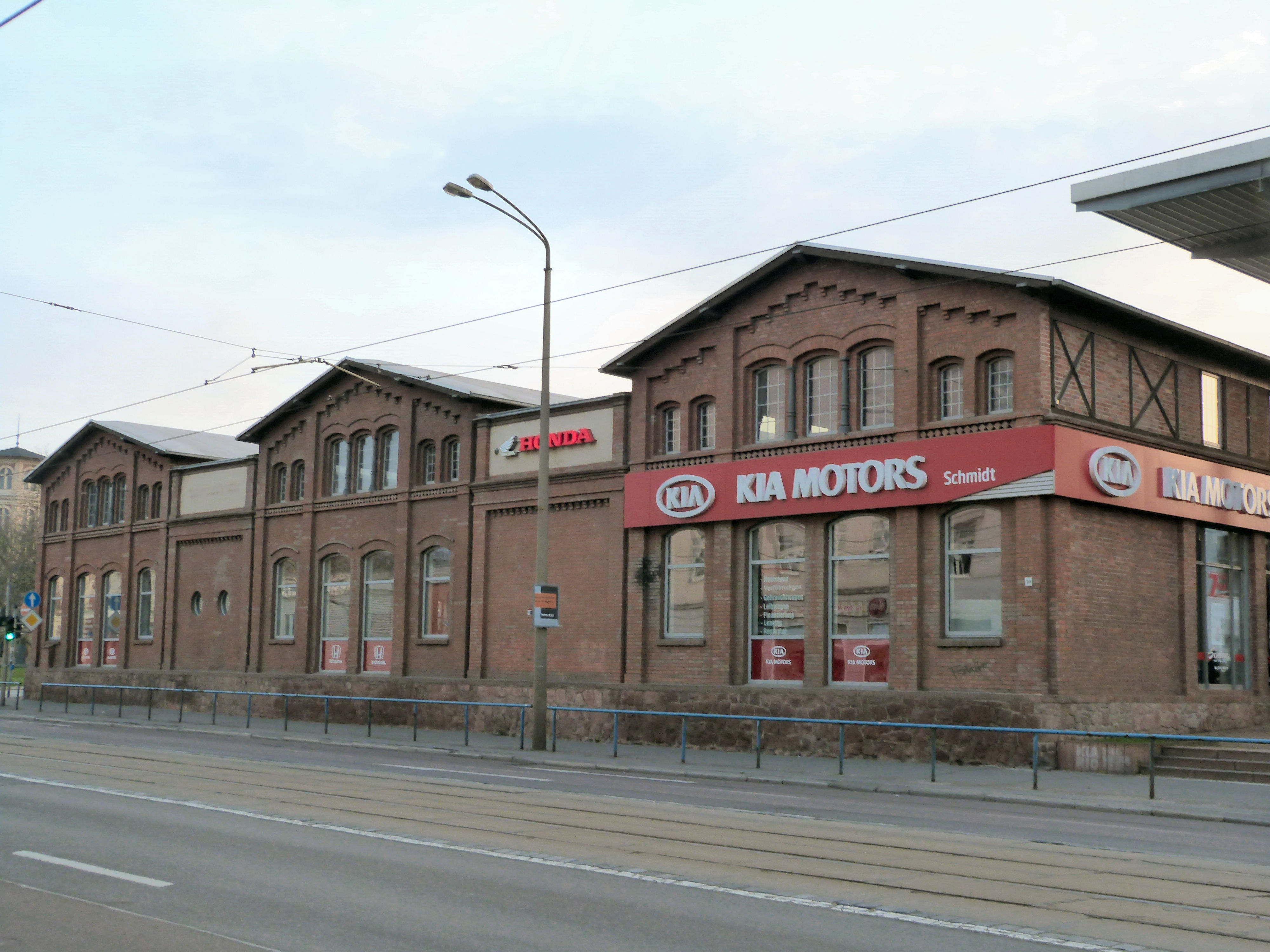 Former machine factory, today car dealer, Merseburger Strasse, Halle (Saale)